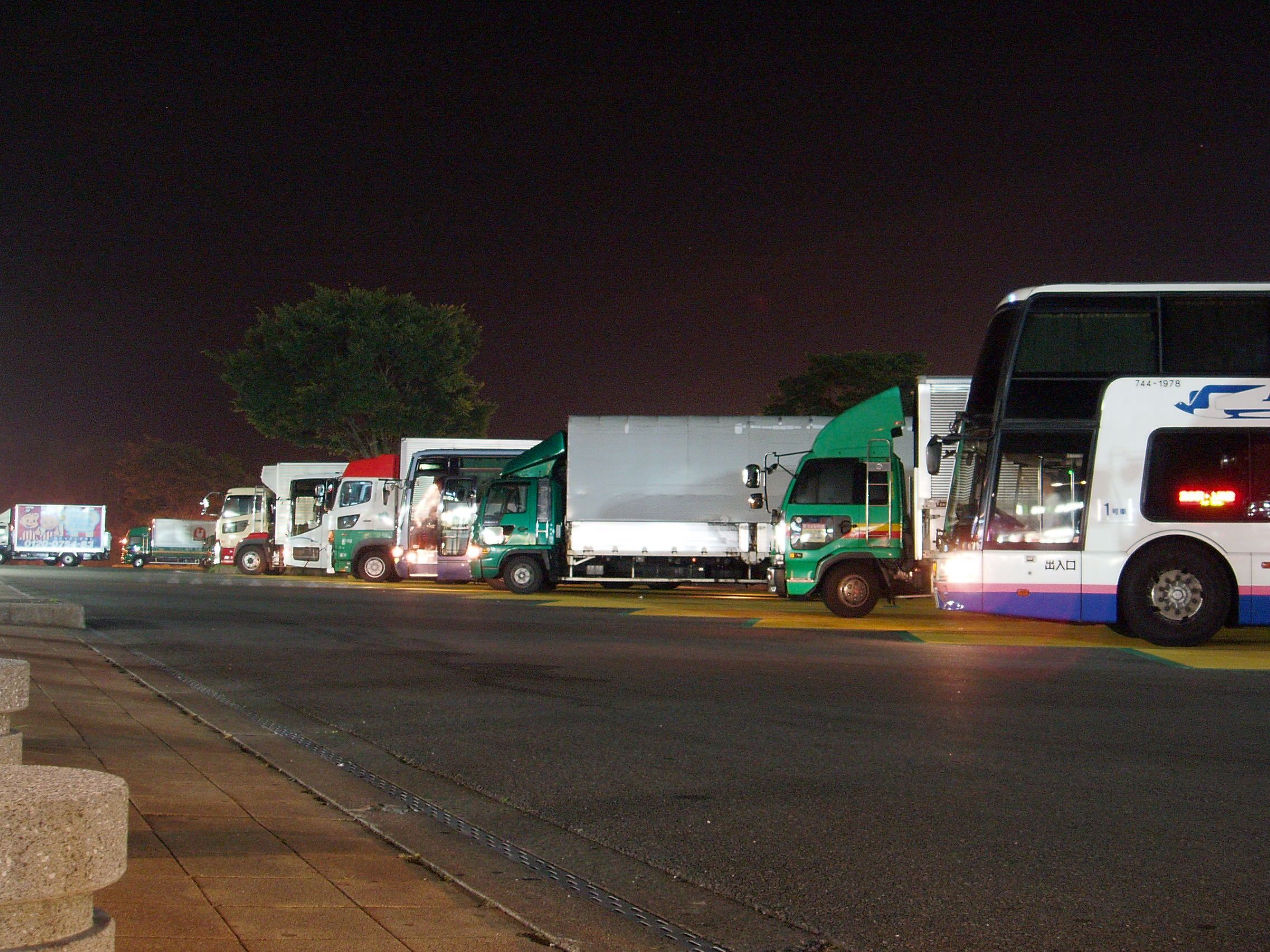 Tomei Expway Fukuyama Service Area on midnight